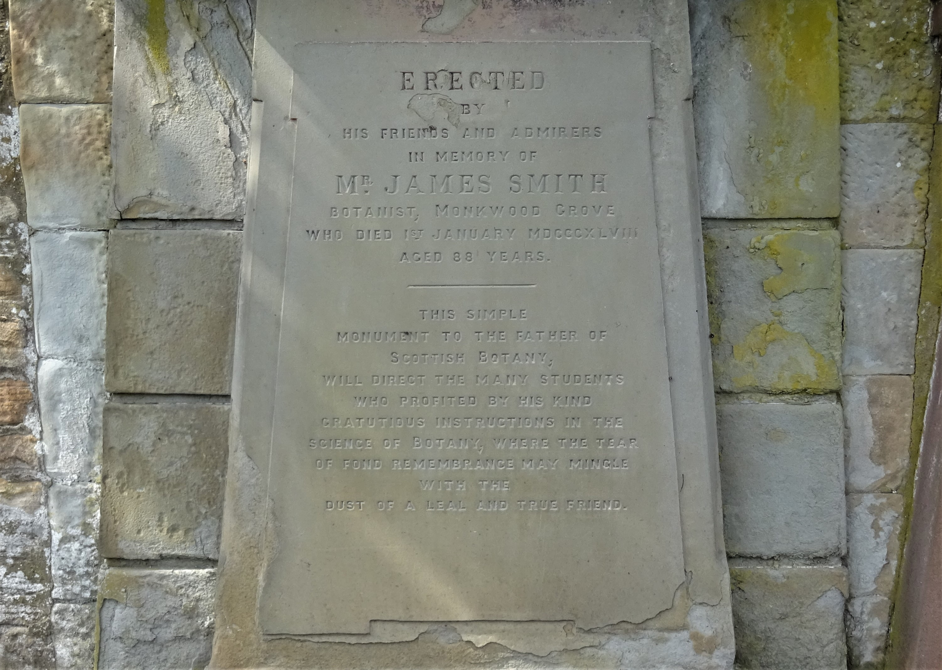 A Scottish botanist. He founded the Monkwood Botanic Garden and Nursery near Minishant; which contained a collection of about 2000 rare and exotic plants. He has been called the 'Father of Scottish Botany'.